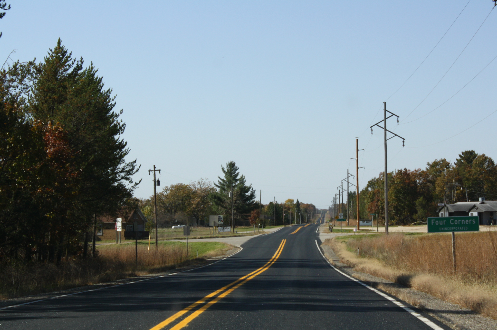 Looking west at the sign for Four Corners, Monroe County, Wisconsin on Wisconsin Highway 71. The northern terminus for Wisconsin Highway 162 is visible on the left.